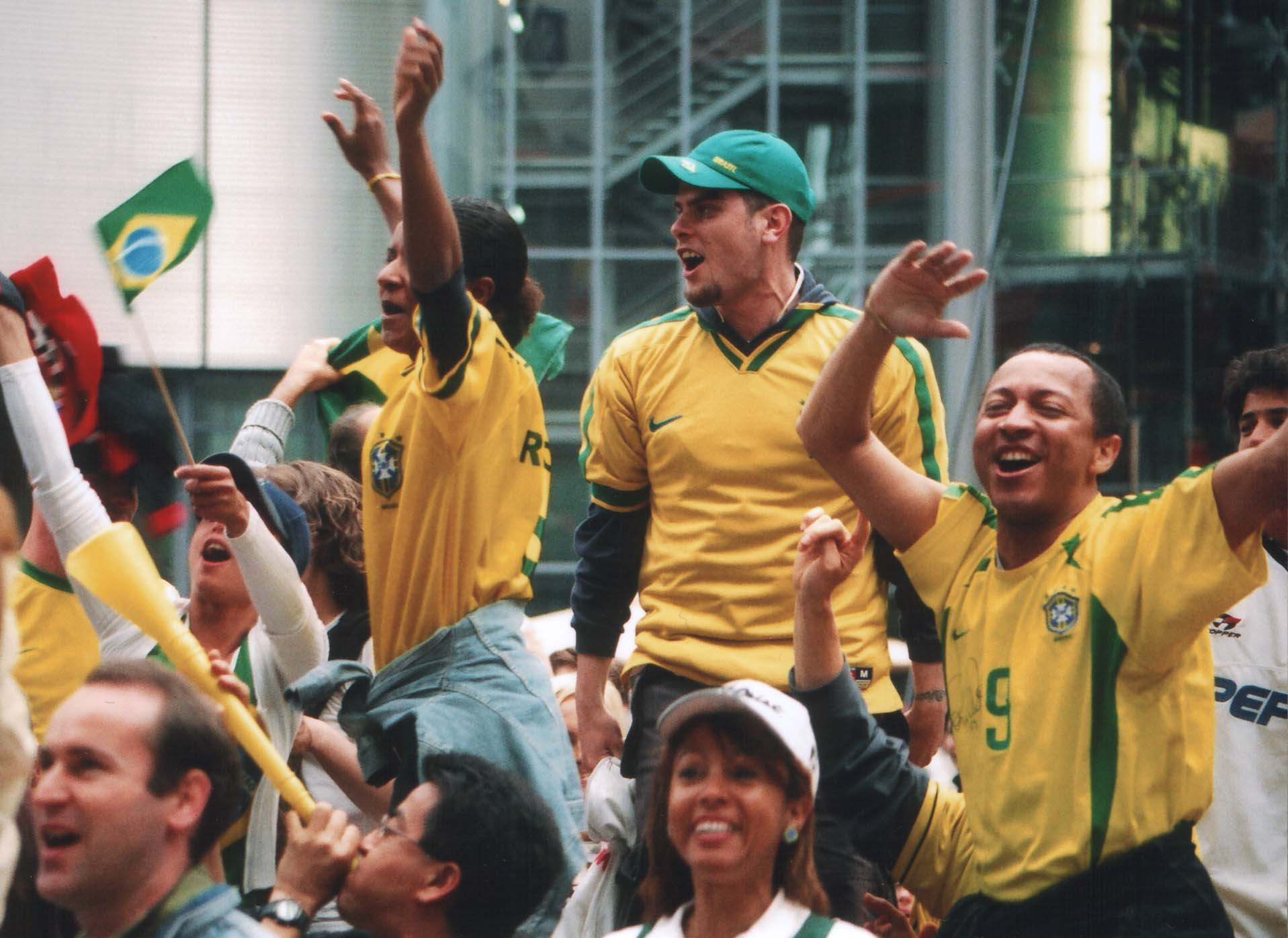 Brazilian Football supporters cheering at the World Cup 2002.